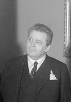 Alfred Falter (1880-1954), Polish businessman and manager 1920-40-ties, Jewish origin. Undersecretary of Treasury in Polish Government in exile.